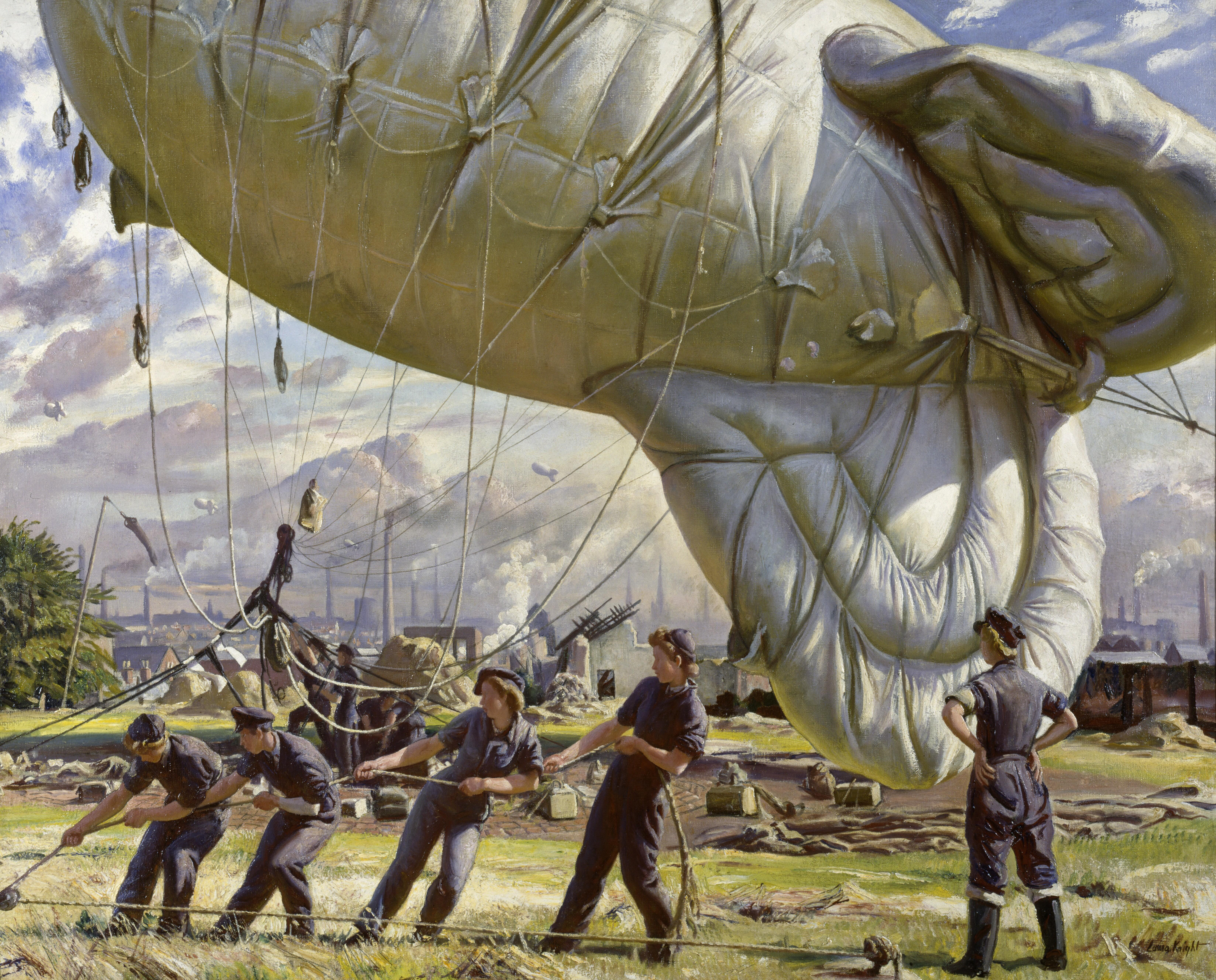 A tethered barrage balloon being hoisted into position by a team of women in WAAF overalls with the city of Coventry visible in the background.